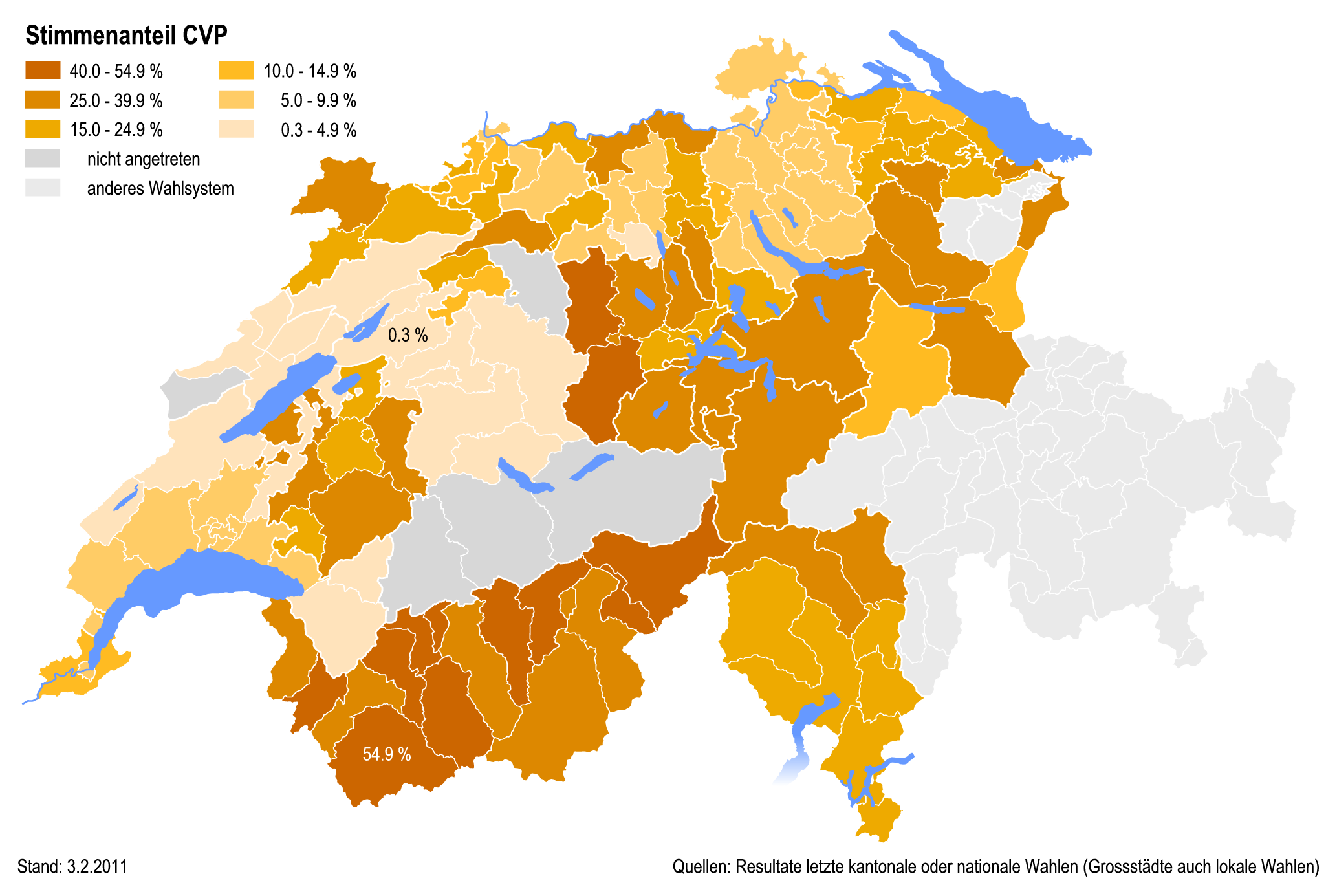 Geographical overview on the votes share of the Christian Democratic People's Party of Switzerland in the districts.